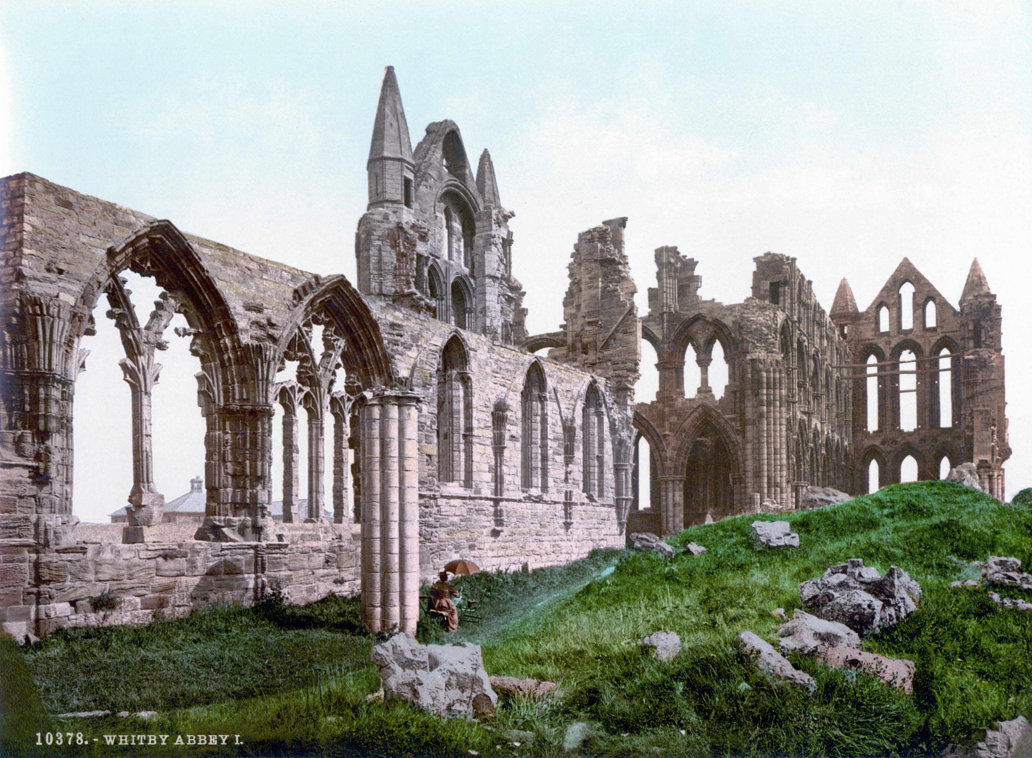 Whitby Abbey, Yorkshire, England